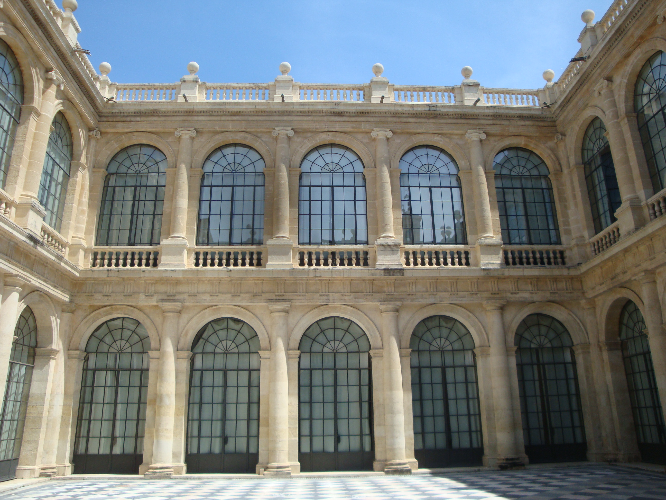 Inner courtyard of the Archivo General de Indias. Seville, Andalusia, Spain.